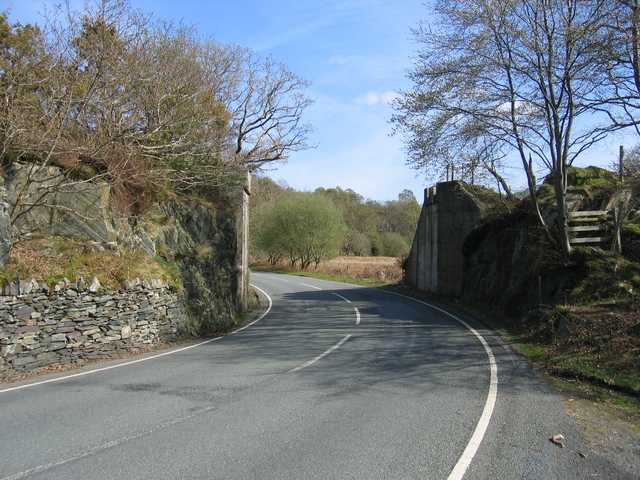 WHR Bridge near Nantmor. The abutments of the 39572 after it was removed pending reconstruction. The bridge has now been replaced with a new deck which was installed on 29th October 2006.